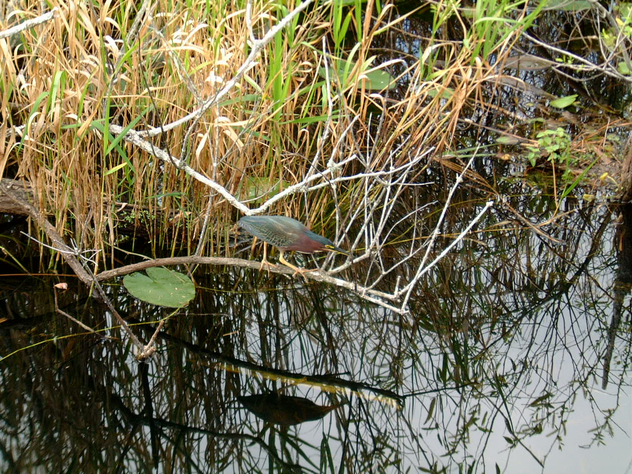 Green Heron (Butorides virescens) at Everglades National Park